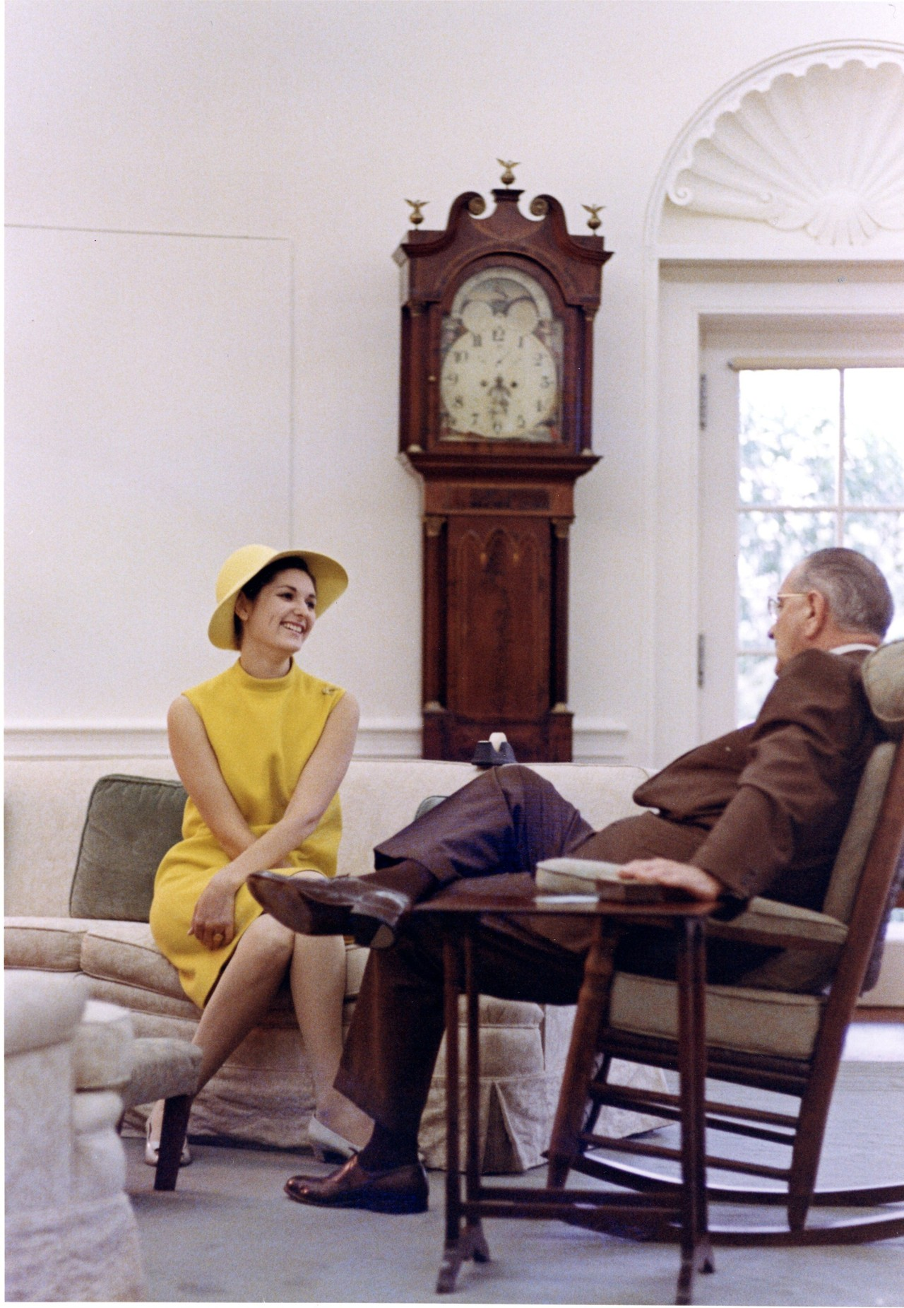 President Lyndon B. Johnson in the Oval Office with his daugther Lynda Bird Johnson